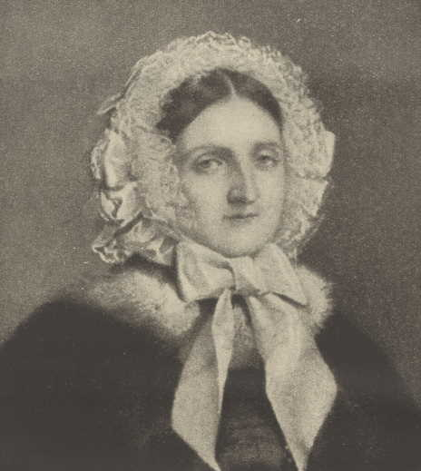 Black and white photograph of a torso portrait of Sophie von Schwerin in the age of 70 years